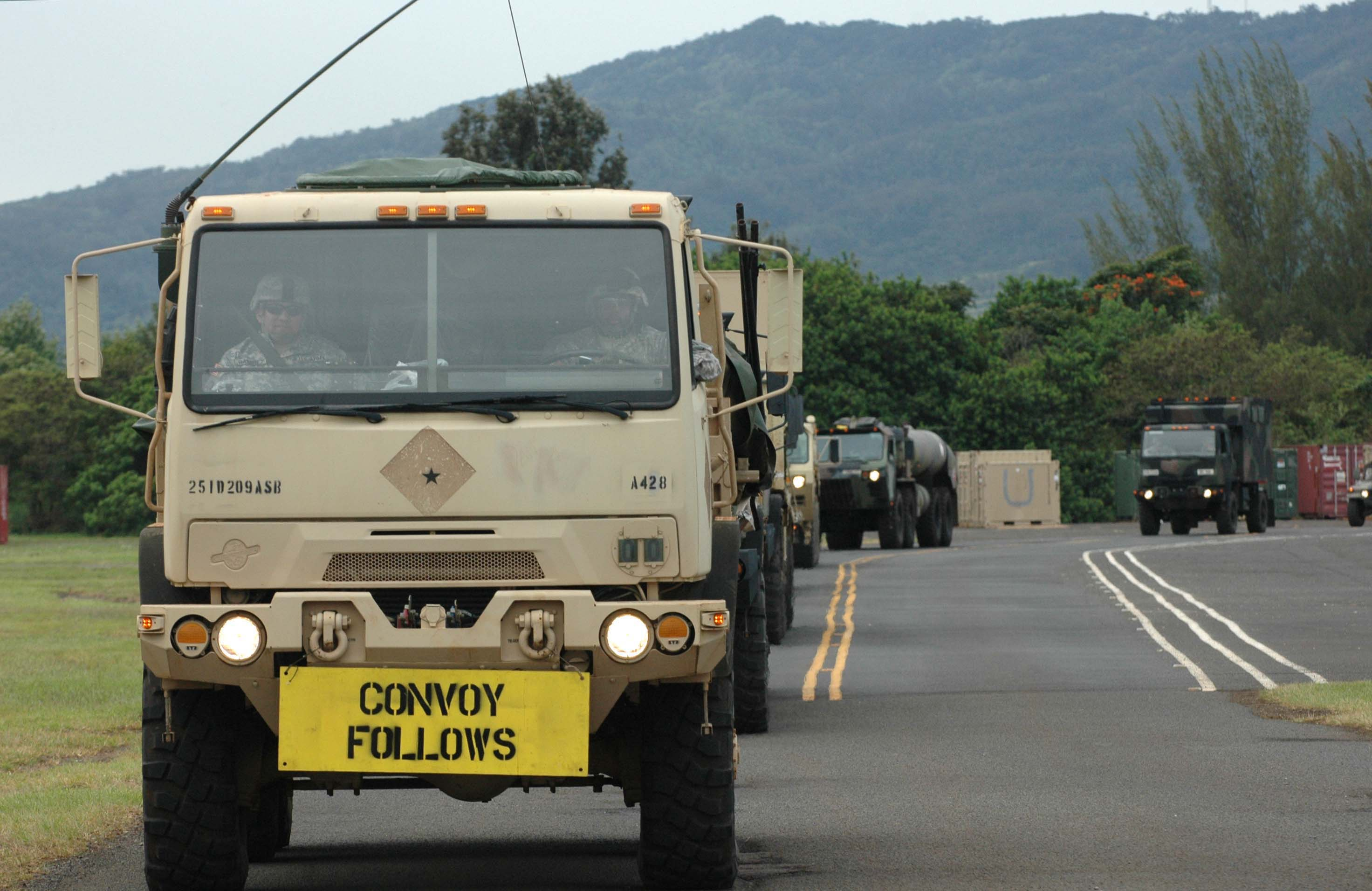 Soldiers from throughout the 25th Combat Aviaition Brigade conducted convoy operations Jan. 26 and 28, transporting 80 vehicles and equipment from Wheeler Army Airfield to the Pohakuloa Training Area on the big island for pre-deployment training.